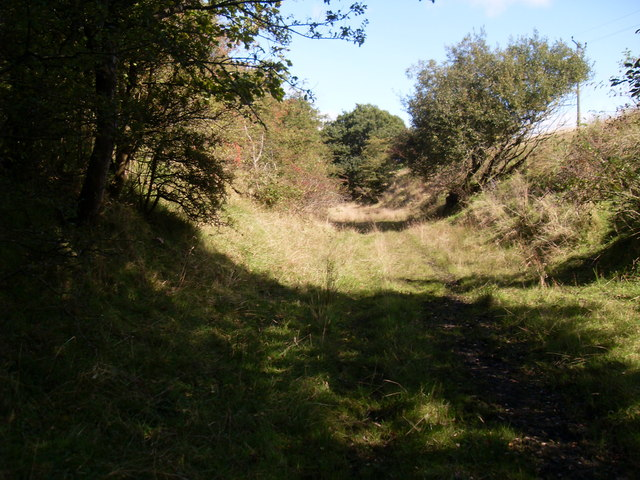 Course of old railway The OS map from 1971 shows this railway still existing.